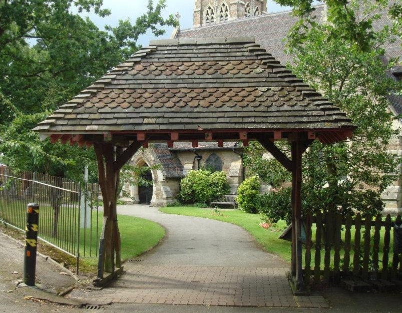 Lychgate outside St Mary's Church in Selly Oak